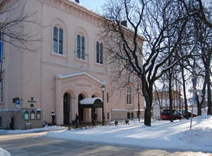 Free Masons Lodge built 1836-1844